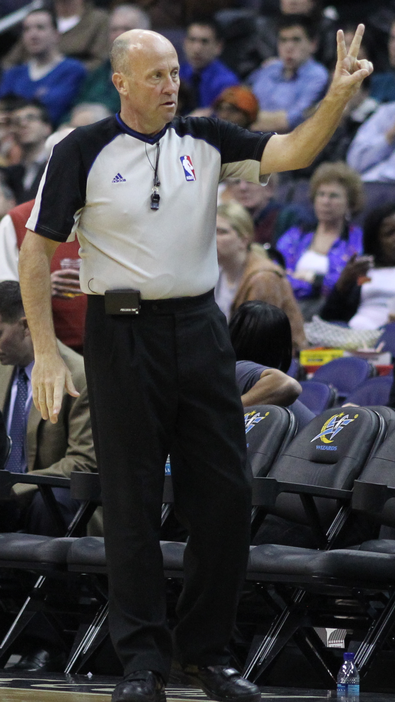 Wizards v/s Warriors 03/02/11